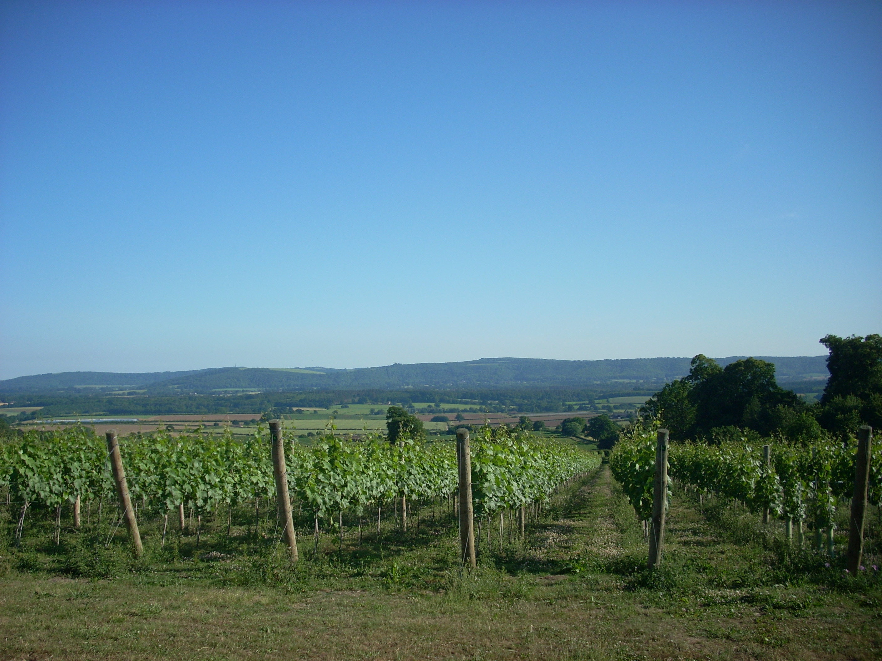 Upperton Vineyard (Nyetimber), near Tillington, West Sussex, UK. View southwards to the South Downs.